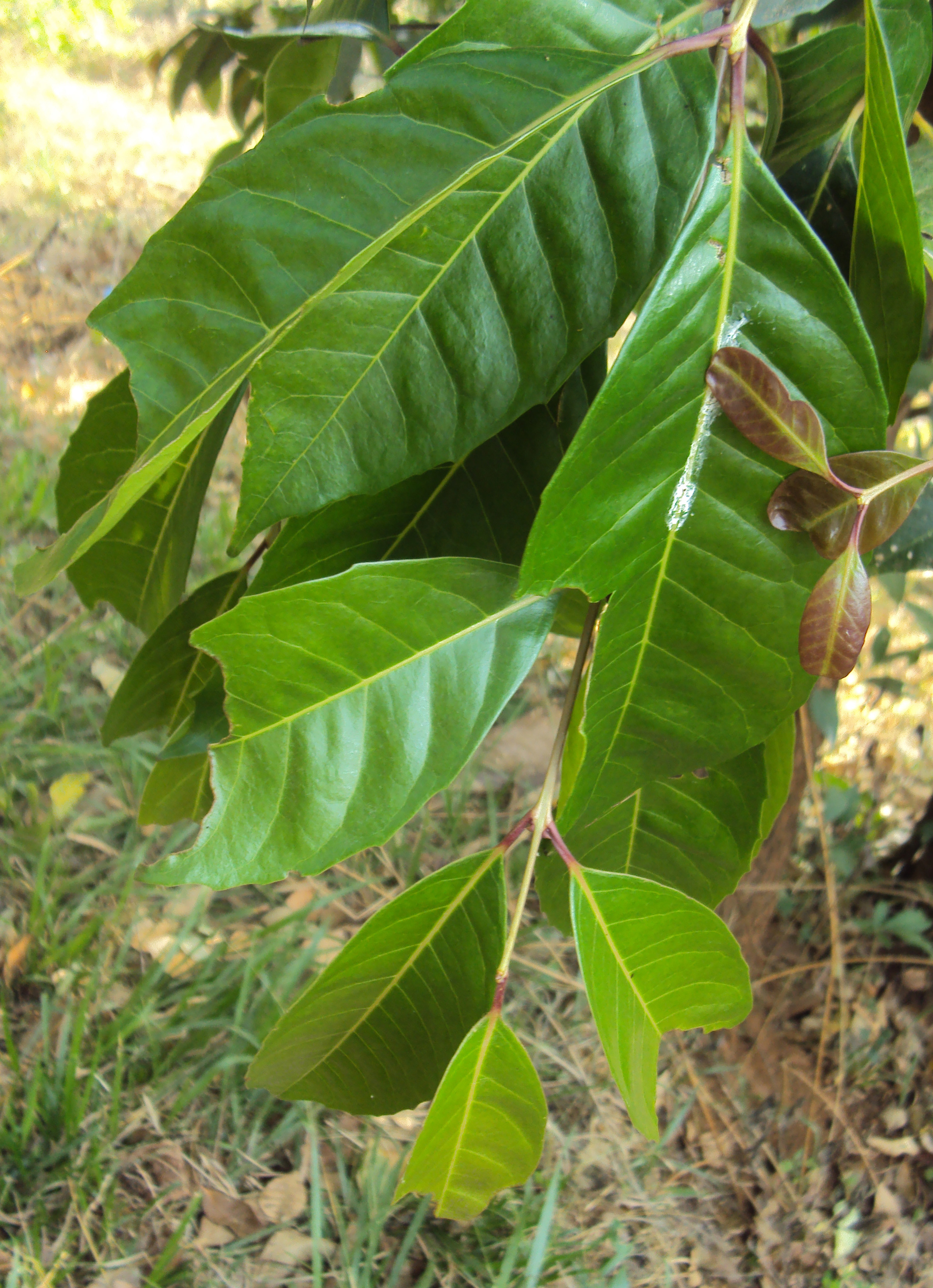 Olea dioica